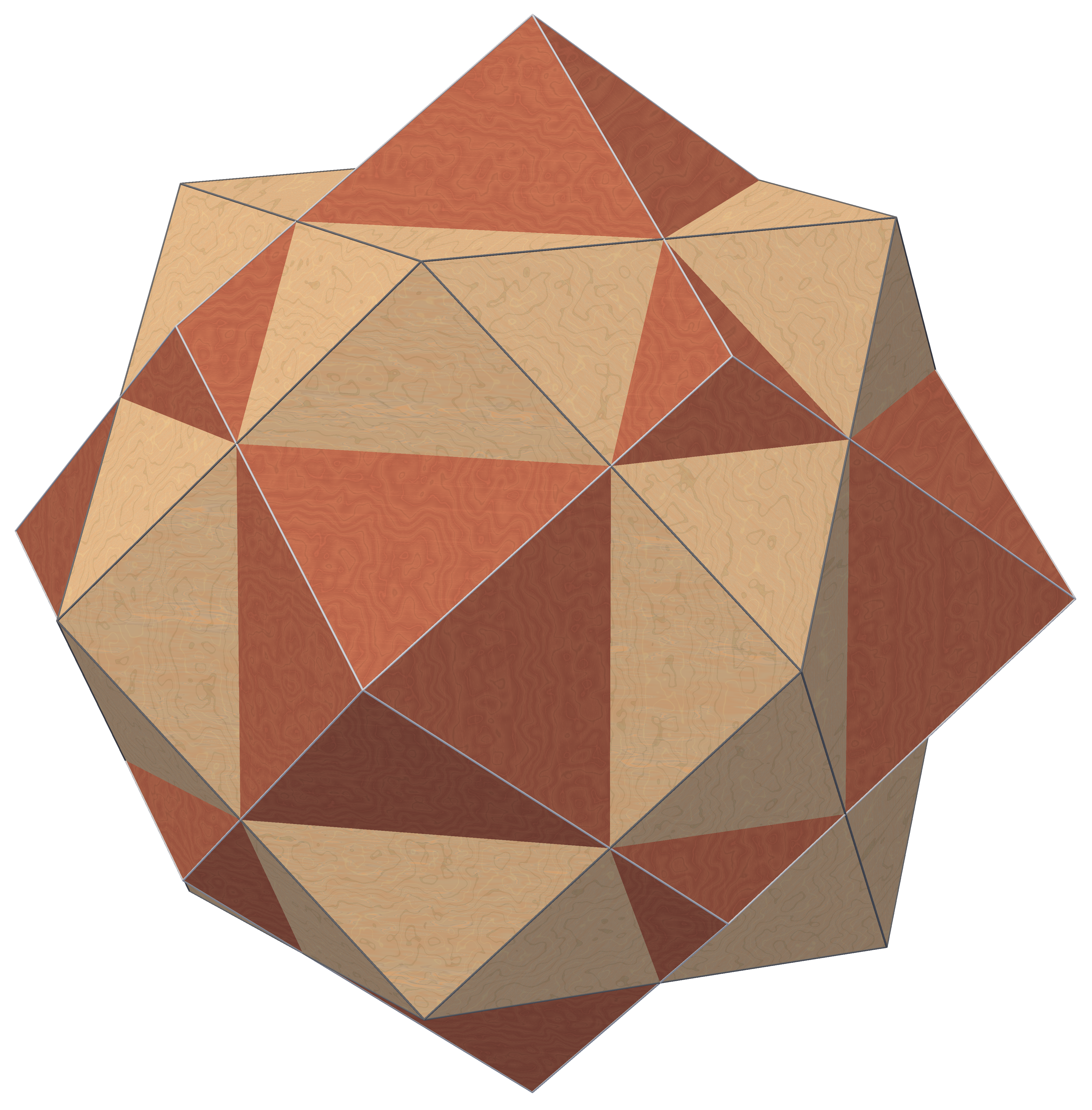 The core is a nonuniform rhombicuboctahedron. Cuboctahedron — Rhombic Dodecahedron Compound A compound of a light Archimedean (or Platonic) solid and its dark Catalan (or Platonic) dual with a form of octahedral symmetry For most images in this set the size of the compound is so chosen that their common midsphere is the one depicted on the right. An overview of these images can be found in the root category of this set: Dual compounds of wooden Platonic, Archimedean and Catalan solids This image was created with POV-Ray Please do not overwrite this image - especially not with a cropped version.